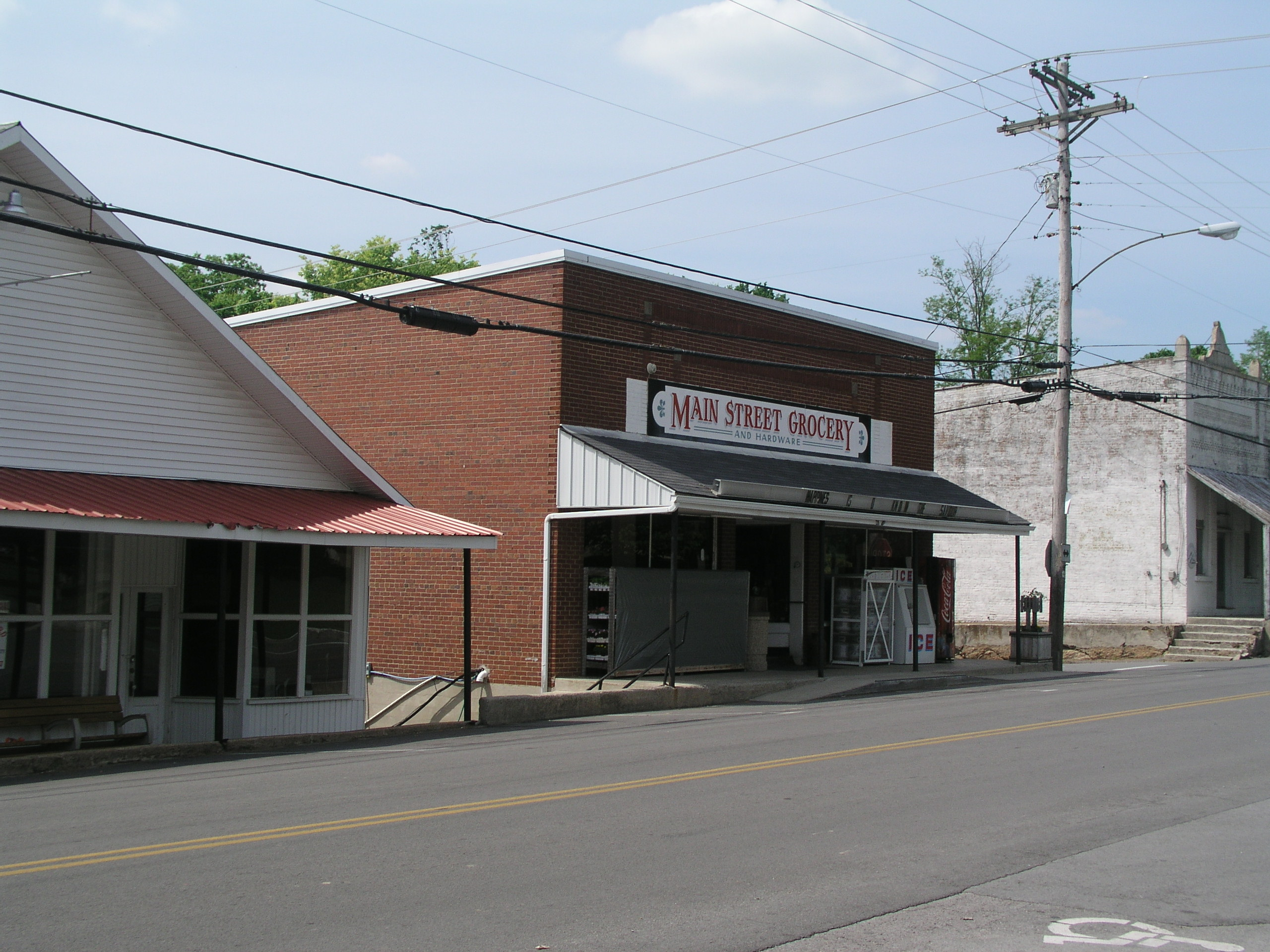 Shops in Fountain Run, Kentucky, United States